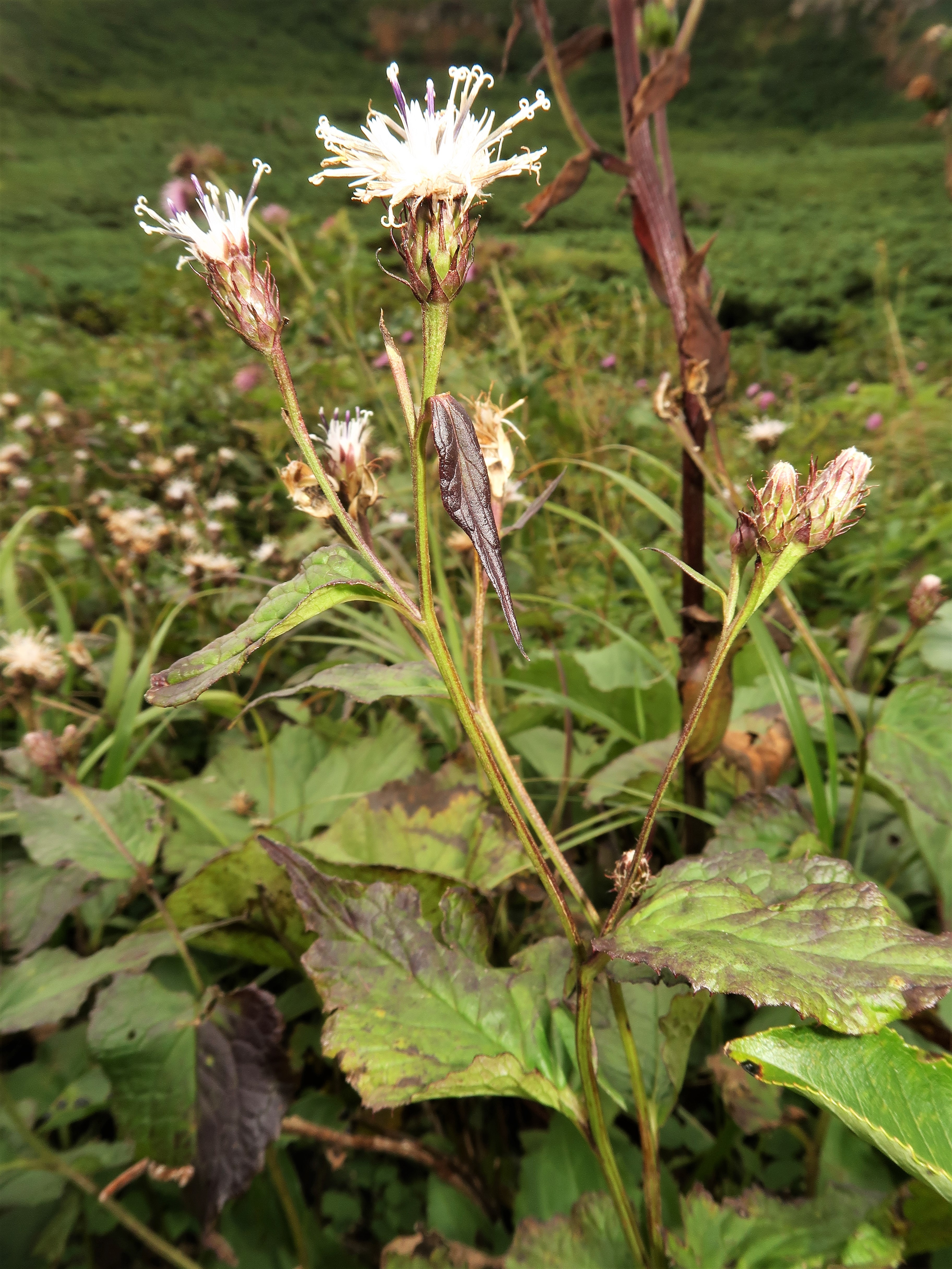 Saussurea × iwateyamensis, Mount Iwate-san, Iwate pref., Japan